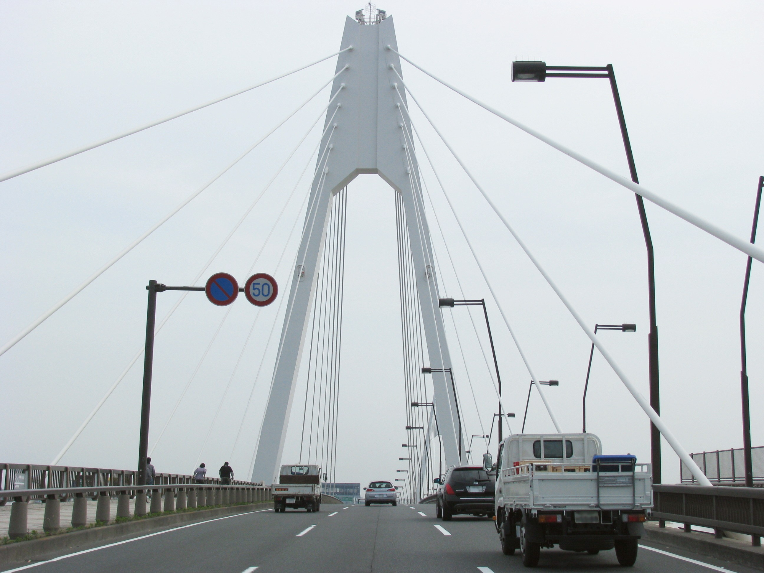 The Daisibasi is a bridge of the Tokyo and Kanagawa Prefectural Route 6 on the Tama River, connecting Ōta, Tokyo and Kawasaki-ku, Kawasaki, Kanagawa Prefectuer.